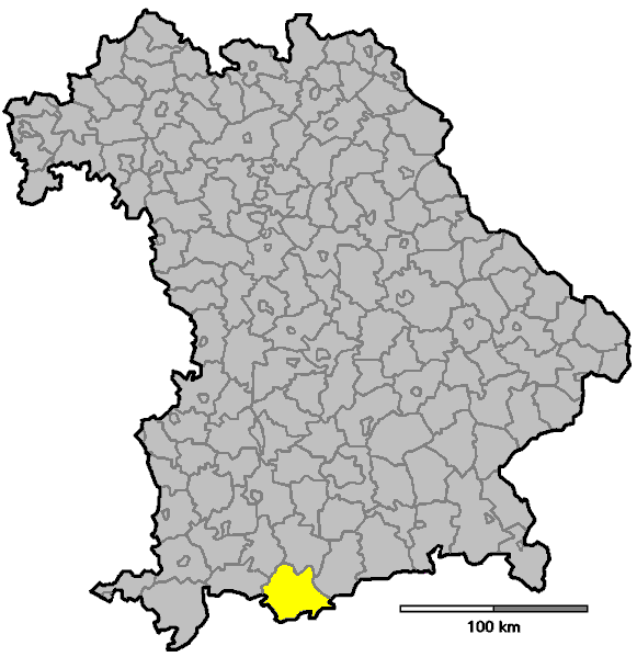 locator map of the former (1970) districts (Landkreise) in Bavaria, Germany